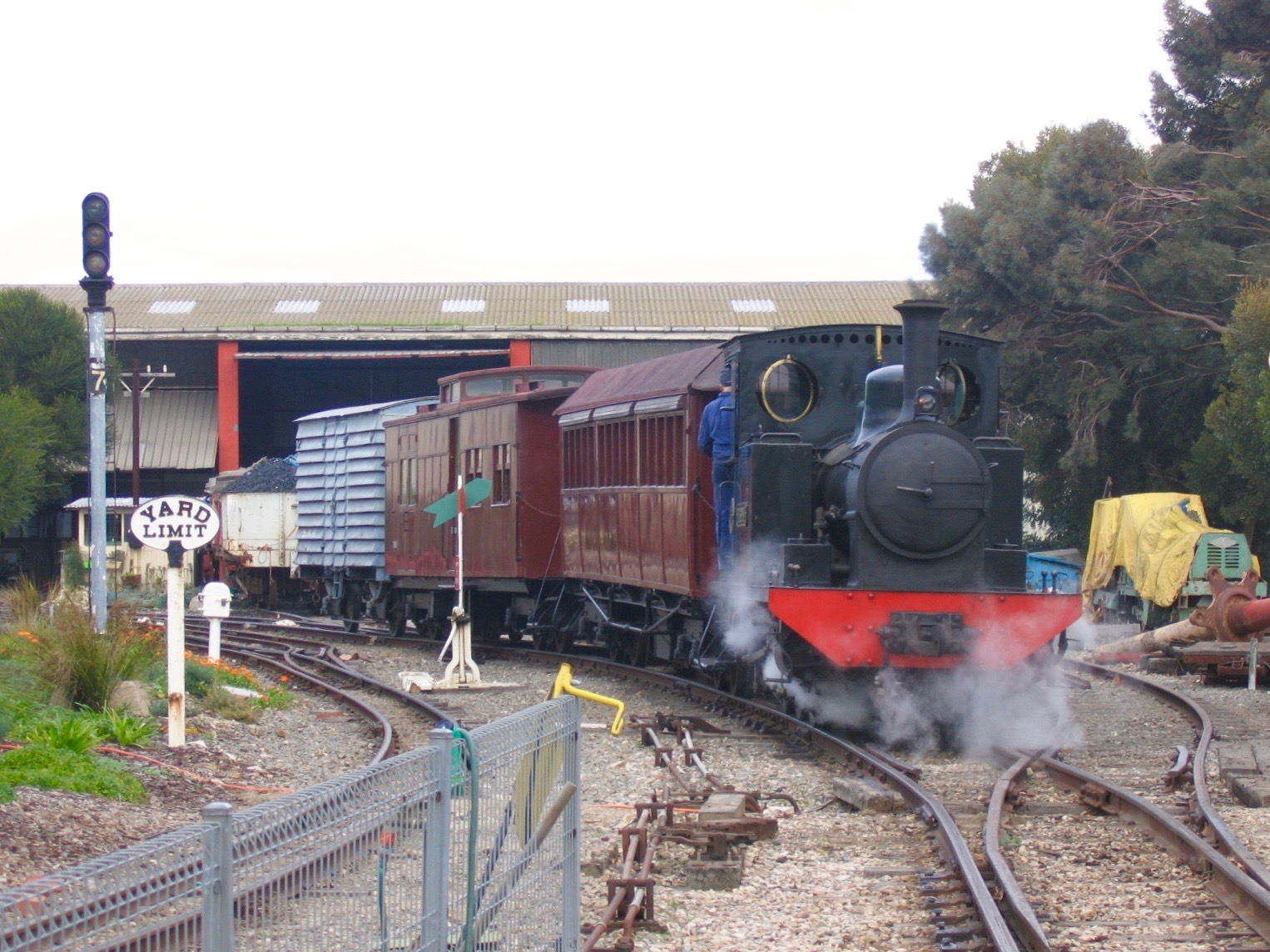 The National Railway Museum operates steam trains on special occasions. Seen here is locomotive Peronne hauling a train at the museum during an event on 15th July 2007.